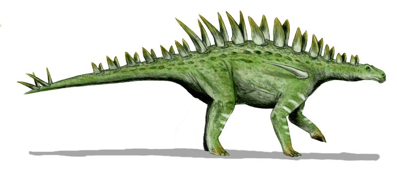 Huayangosaurus taibaii, a stegosaur from the Middle Jurassic of China, pencil drawing